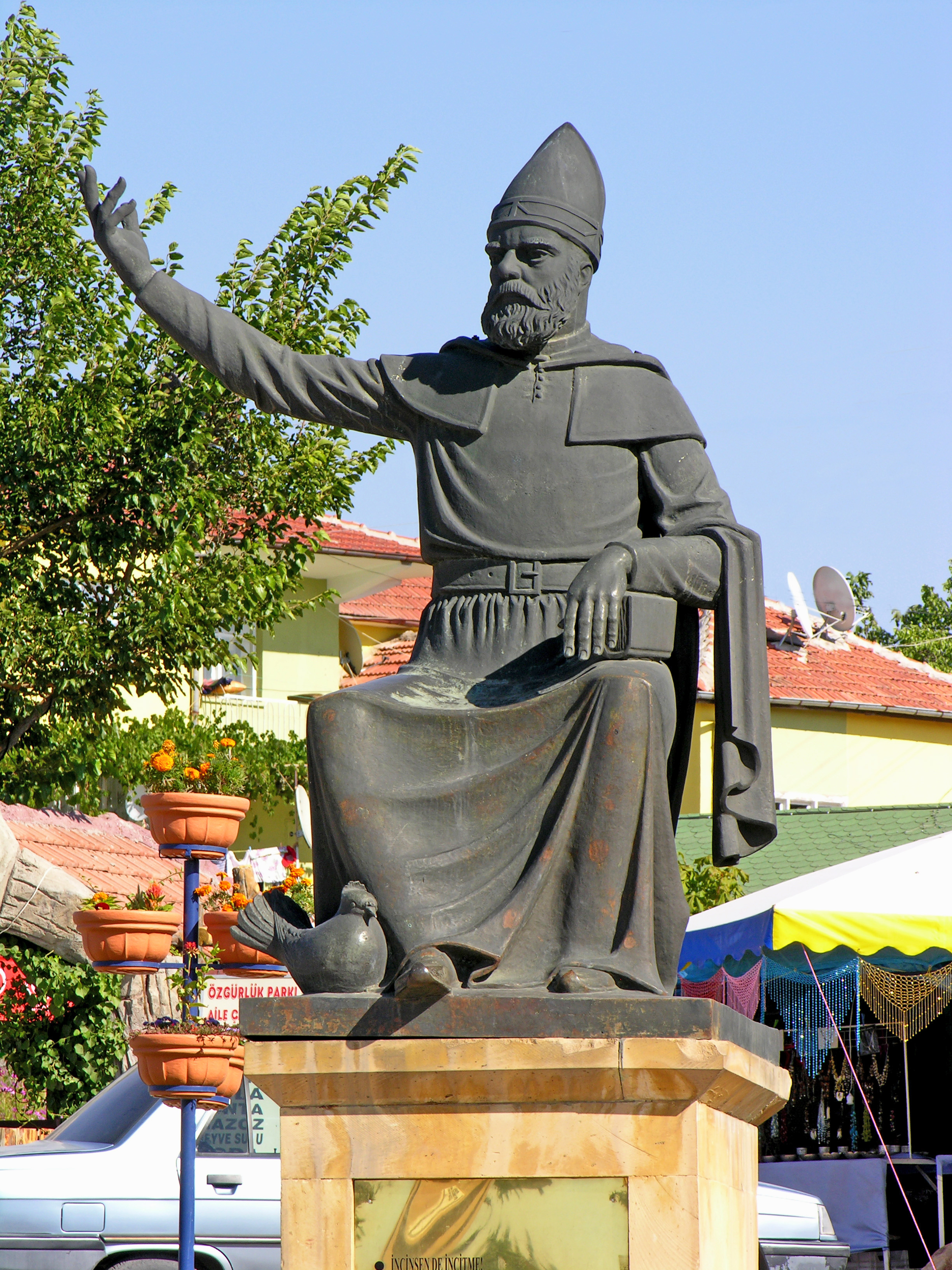 Haci Bektas Veli was a mystic, humanist and a philosopher who lived approx. from 1248-1337 in Anatolia (Central-Turkey). His teachings had great impact on the Anatolian cultures. Haci Bektas Veli's characters are his humanistic teachings and his mystic personality. Anatolia, Turkey